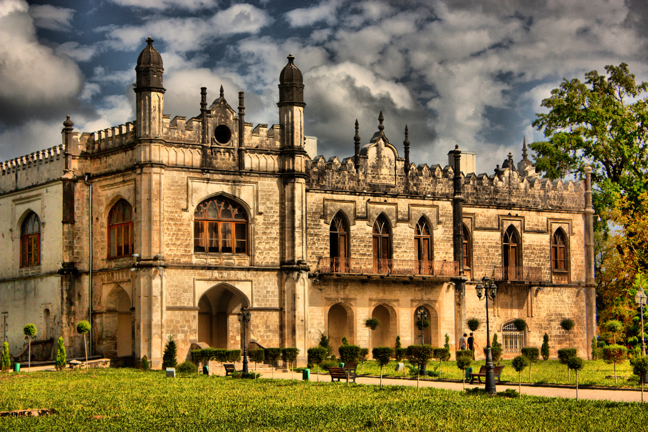 Dadiani Palaces History and Architechtural Museum (Georgian: დადიანების სასახლეთა ისტორიულ-არქიტექტურული მუზეუმი) - is a national museum located in Zugdidi, Samegrelo, Georgia.[1] The Dadiani Palaces History and Architechture Museum is considered to be one of the mosteminent palaces in Caucasus. The first exhibition, of archaelogical excavations onf ancient city of Nokalakevi was prepared by Megrelian prince David Dadiani and took place in year 1840. Three palaces form the modern museum complex, parts of which are also Blackernae Virgin Church and Zugdidi Botanical Garden. The Dadiani Palaces History and Architechture Museum houses some exhibits of natural cultural heritage of Georgia- Tagiloni treasure materials, Mother of God holy vesture, the icon of queen Bordokhan - mother of queen Tamar of Georgia, manuscripts from 13-th - 14-th centuries, miniatures, memorial relics of Dadiani dinasty, and objects connected to emperor of France Napoleon Bonaparte - brought to the palace by husband of David Dadiani's daughter, prince Ashille Muratt, grandson of Napoleon's sister, Carolina.